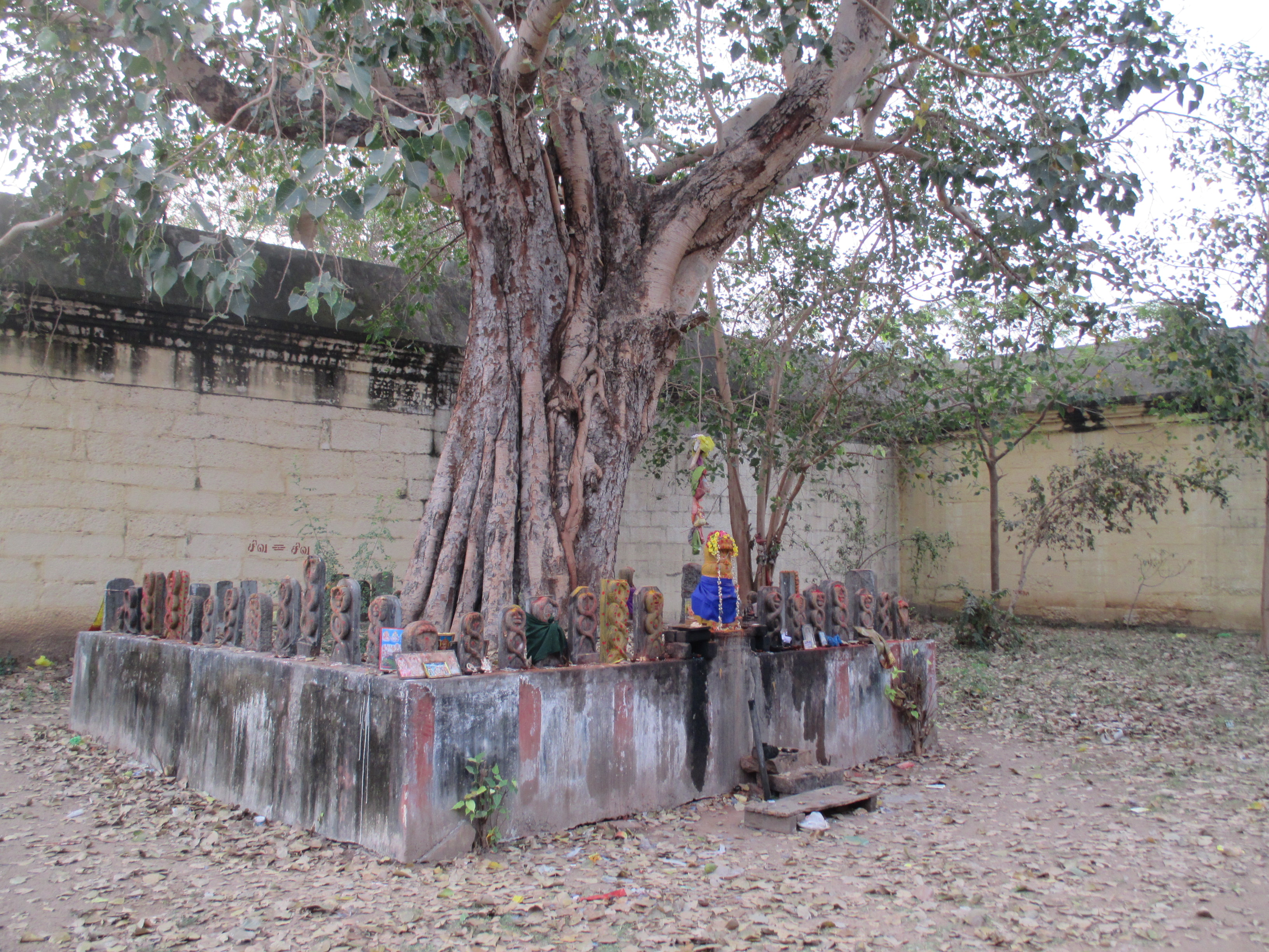 Thirukovilur Veerateeswarar Temple